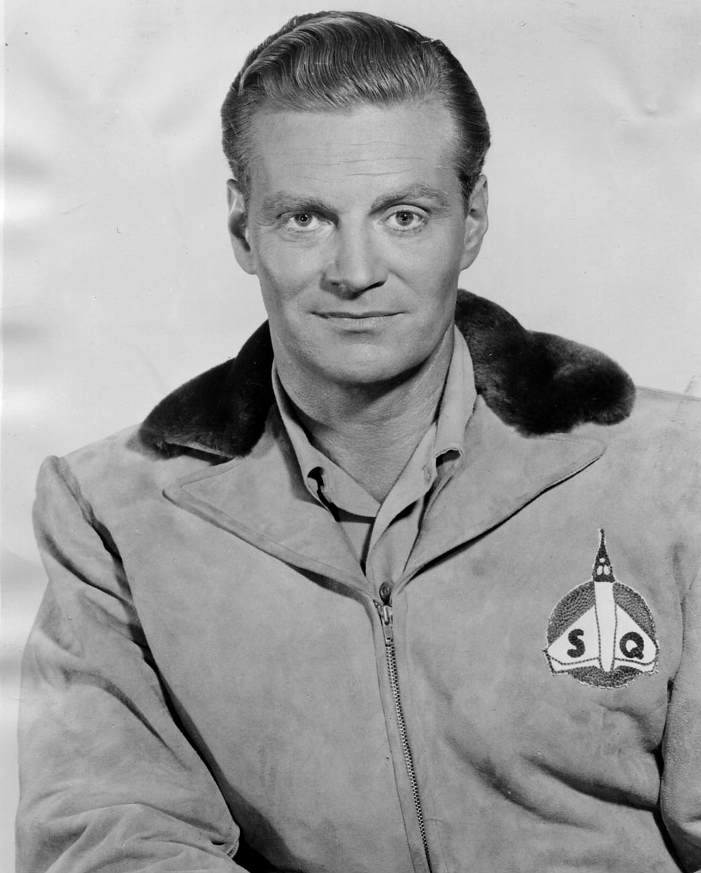 Photo of actor Richard Webb, who played Captain Midnight in the television series.